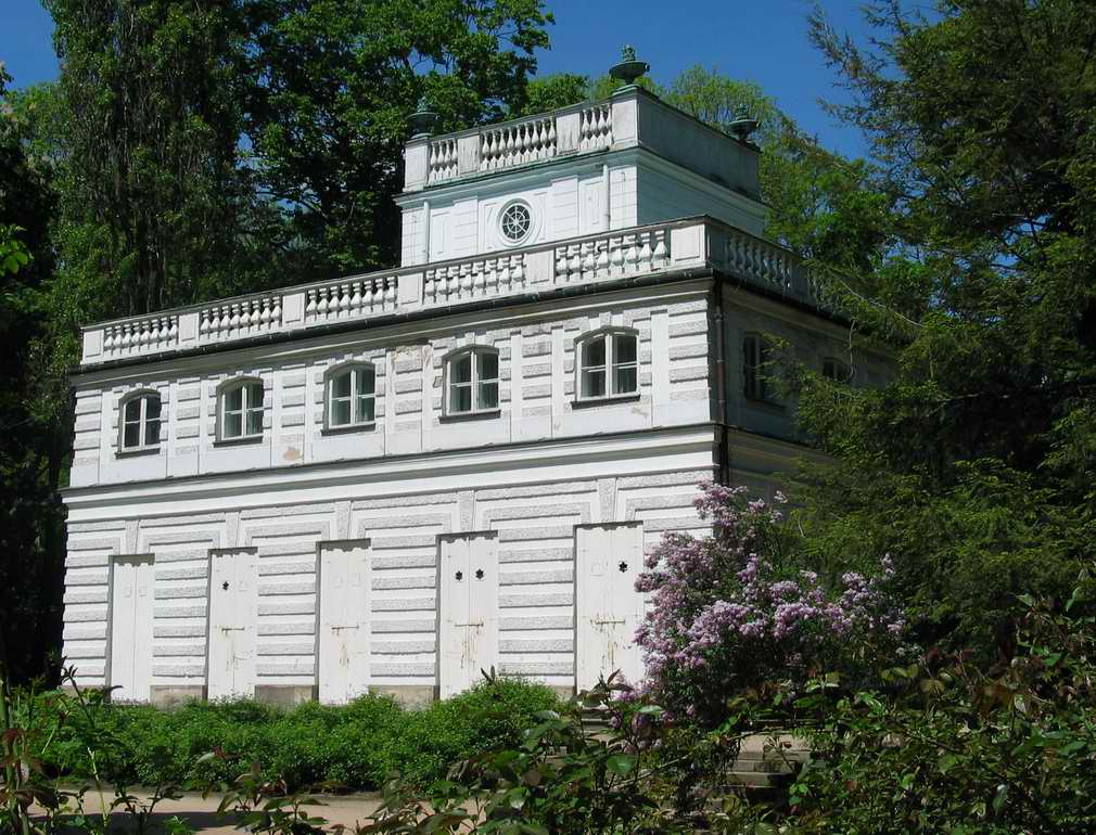 Warszawa, Biały Domek (White House) in Łazienki Królewskie Park